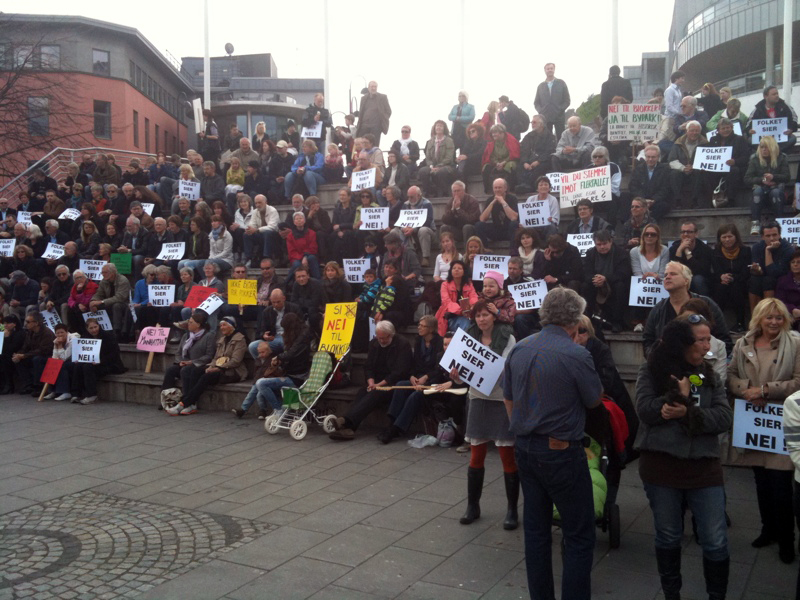 Picture from demonstration against flats in Barbu arranged by Kreative Krefter